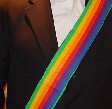 The photo was taken by Joe Murray, and it is used internationally as the symbol for the Rainbow Sash Movement